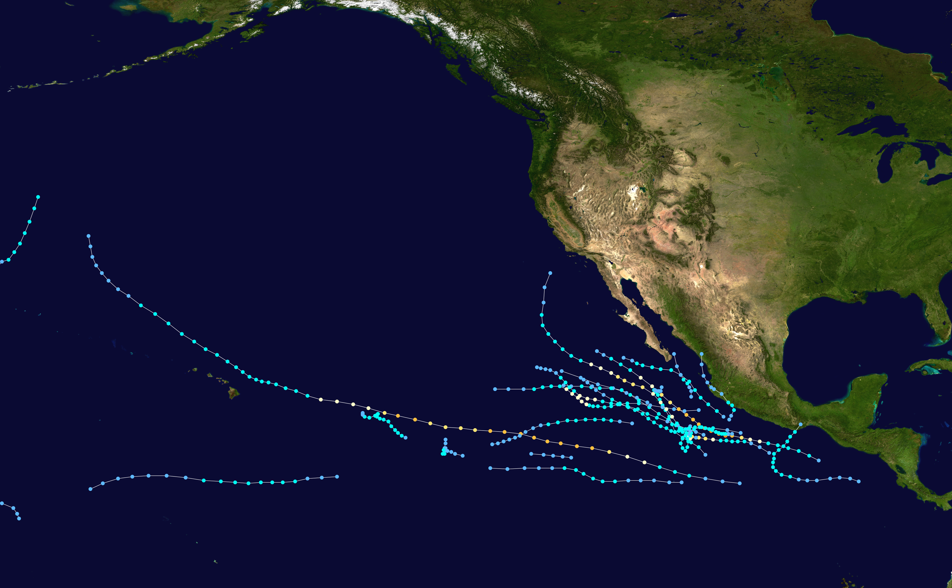 This map shows the tracks of all tropical cyclones in the 2000 Pacific hurricane season. The points show the location of each storm at 6-hour intervals. The colour represents the storm's maximum sustained wind speeds as classified in the Saffir-Simpson Hurricane Scale (see below), and the shape of the data points represent the type of the storm. Saffir–Simpson scale Tropical depression≤38 mph≤62 km/h Category 3111–129 mph178–208 km/h Tropical storm39–73 mph63–118 km/h Category 4130–156 mph209–251 km/h Category 174–95 mph119–153 km/h Category 5≥157 mph≥252 km/h Category 296–110 mph154–177 km/h Unknown Storm type Tropical cyclone Subtropical cyclone Extratropical cyclone / Remnant low / Tropical disturbance